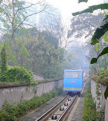 Changshou Funicular